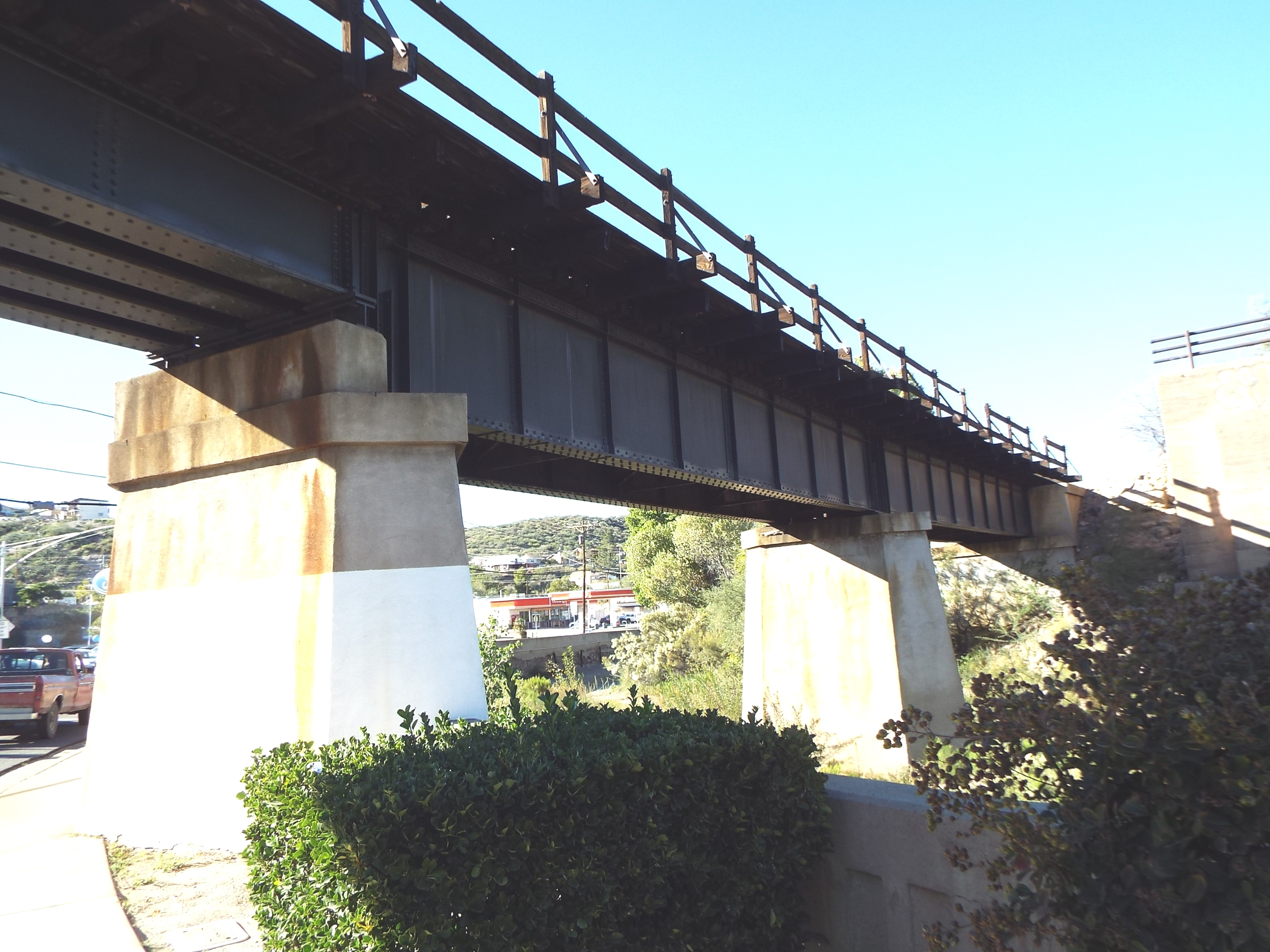 Globe-North and Broad Street Overpass-built in 1910. Additions in 1923 for the Arizona Eastern Railway and the Southern Pacific Railroad.